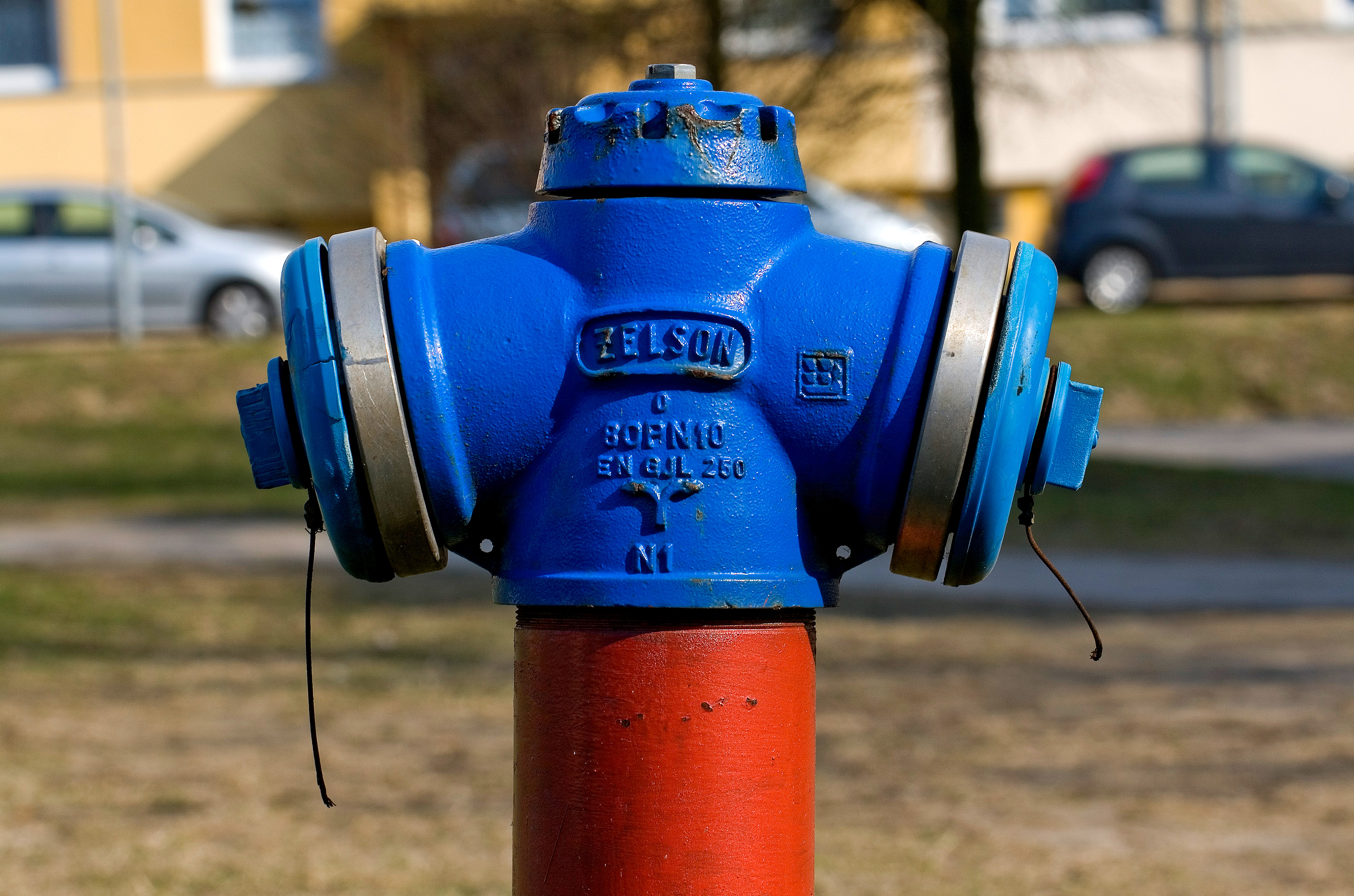 Fire hydrant, Gniezno, Poland